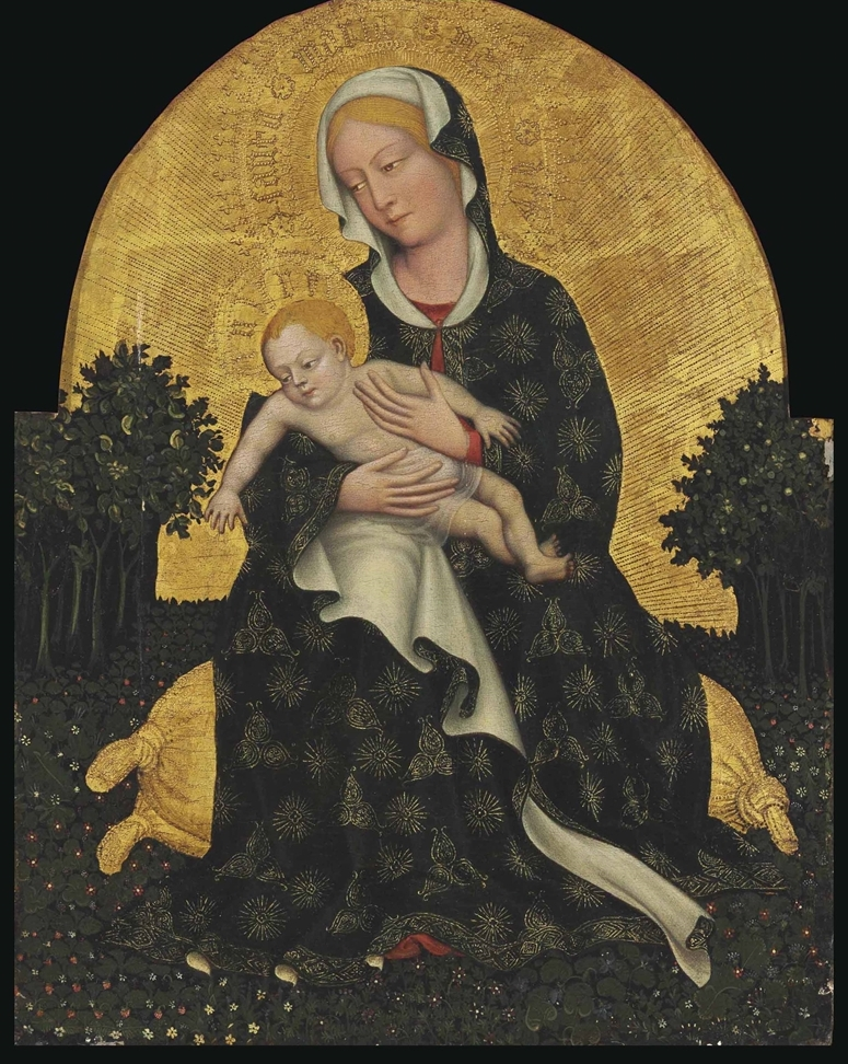 Zanino di Pietro (attr.) Madonna of Humility. Private collection.